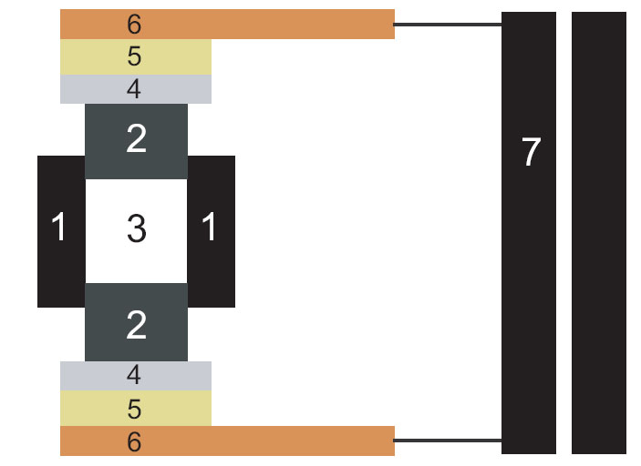 scheme of DIRECT hot pressing process